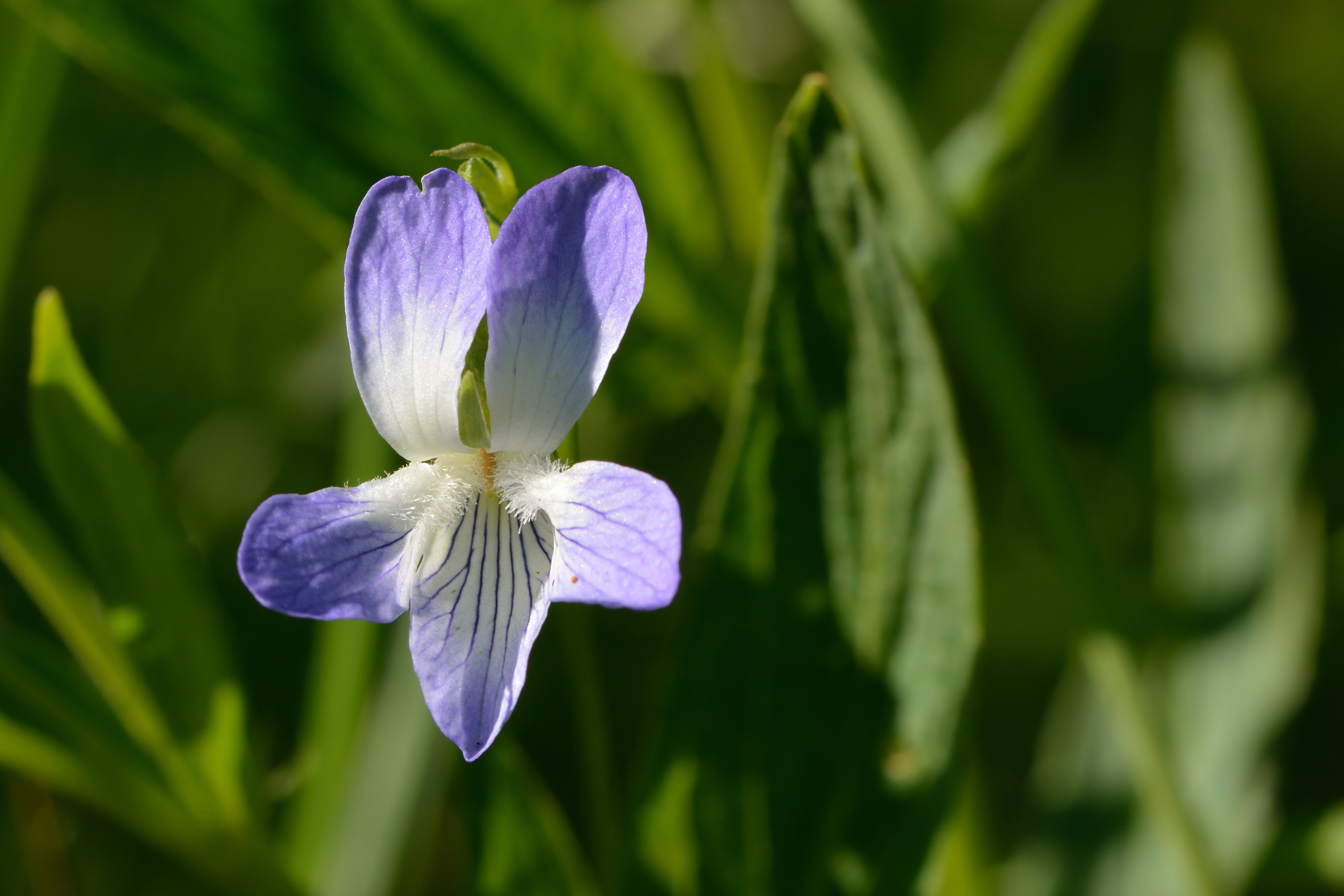 Tall Violet (Viola elatior). Keila, Northwestern Estonia. It belongs to the category II of protected species in the country